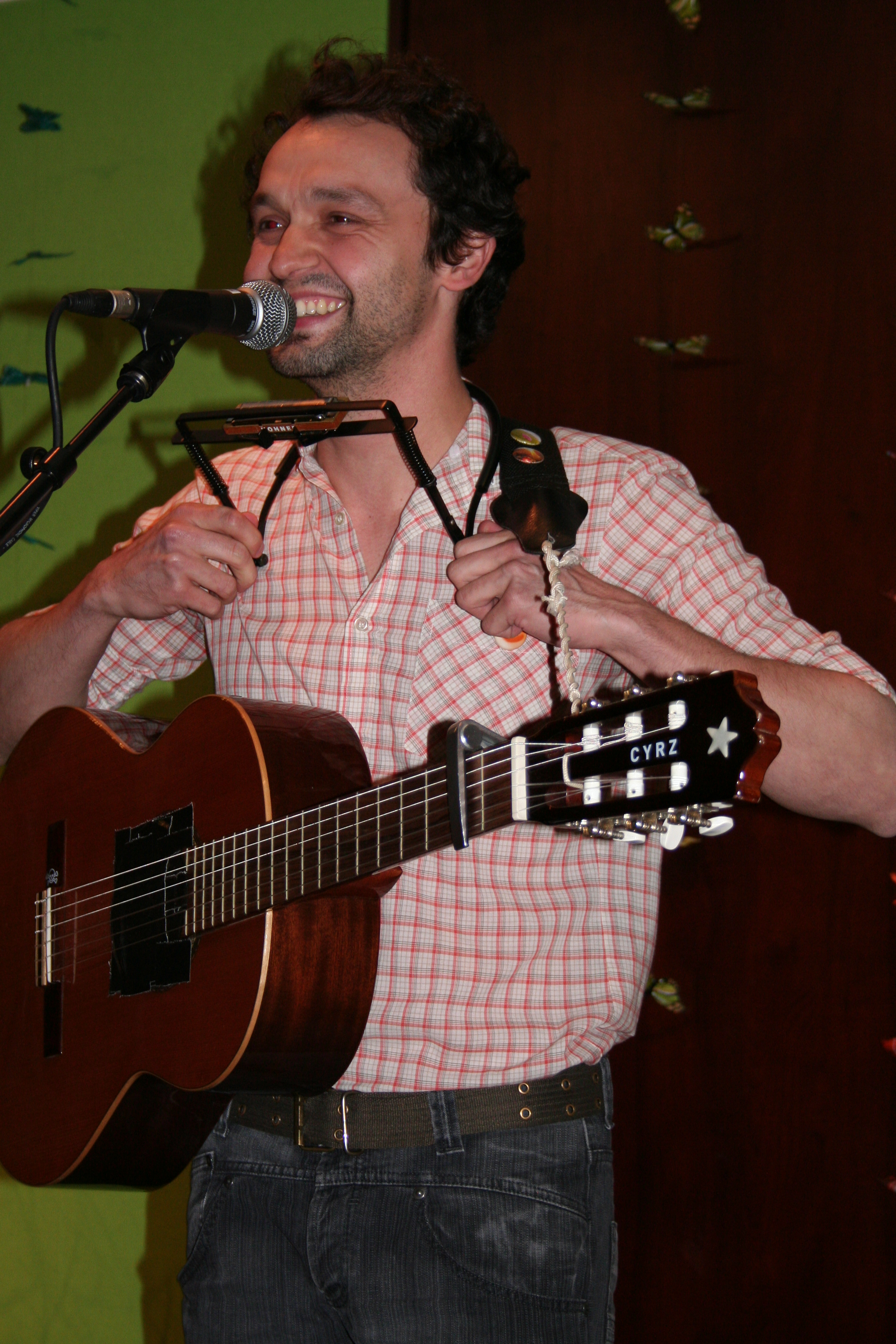 Show-case with Cyrz at Fnac Italie (Paris, France).